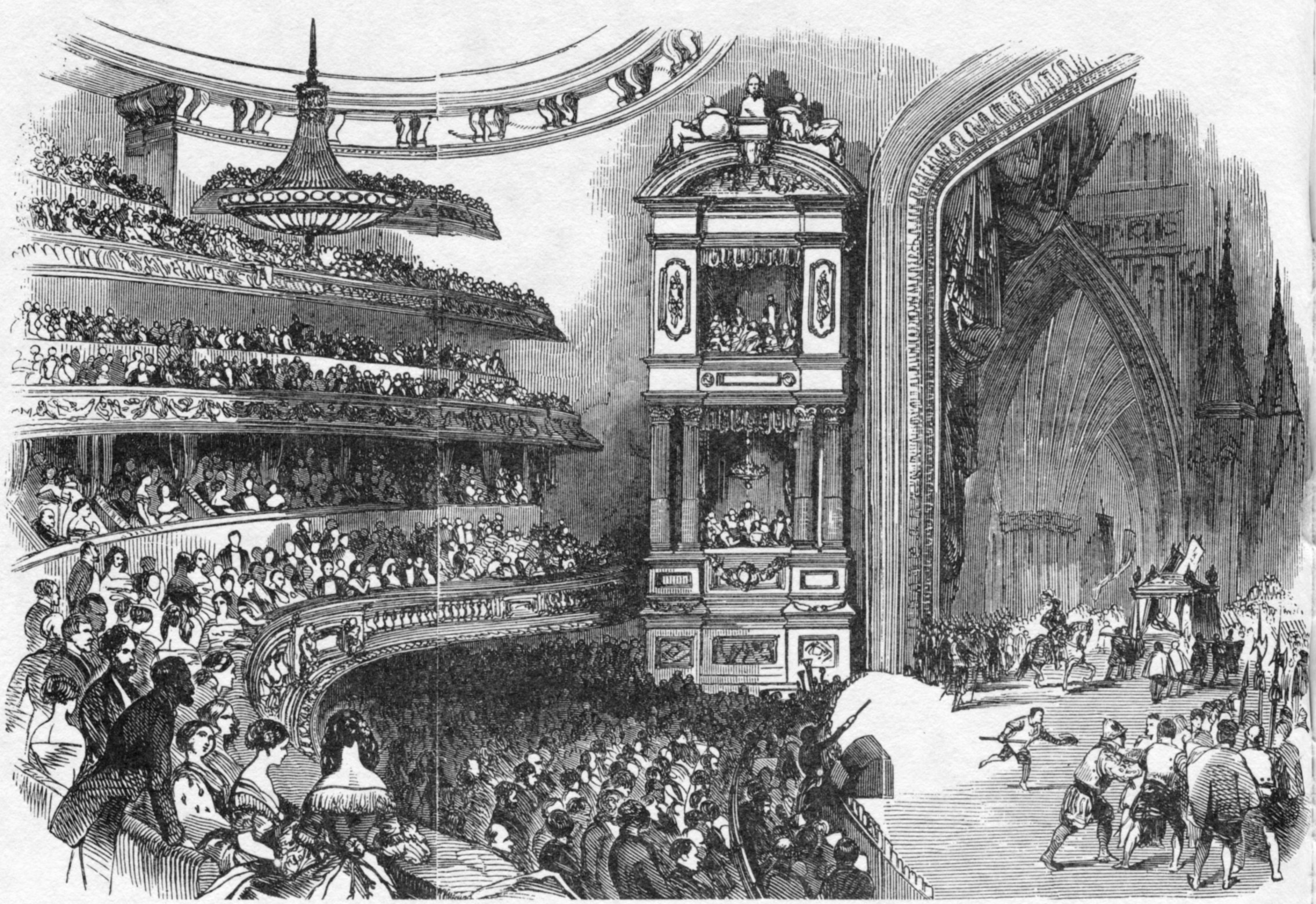 "Opening of the Théâtre Historique, Paris, 1847" (Credit: Mansell Collection)